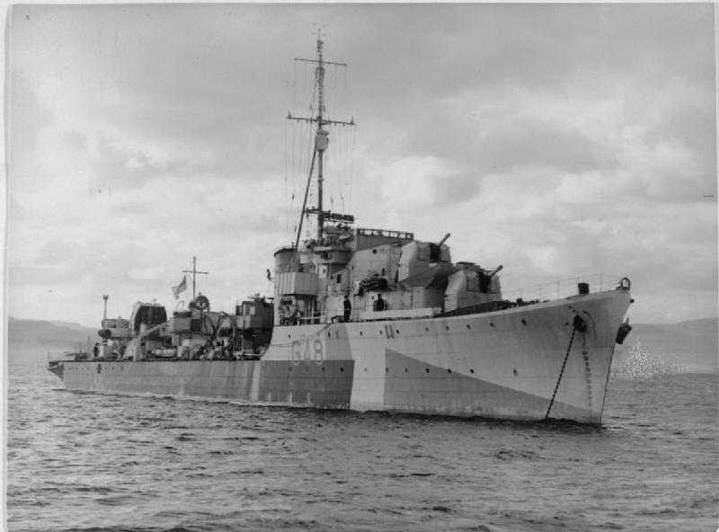 HMS Obedient At anchor